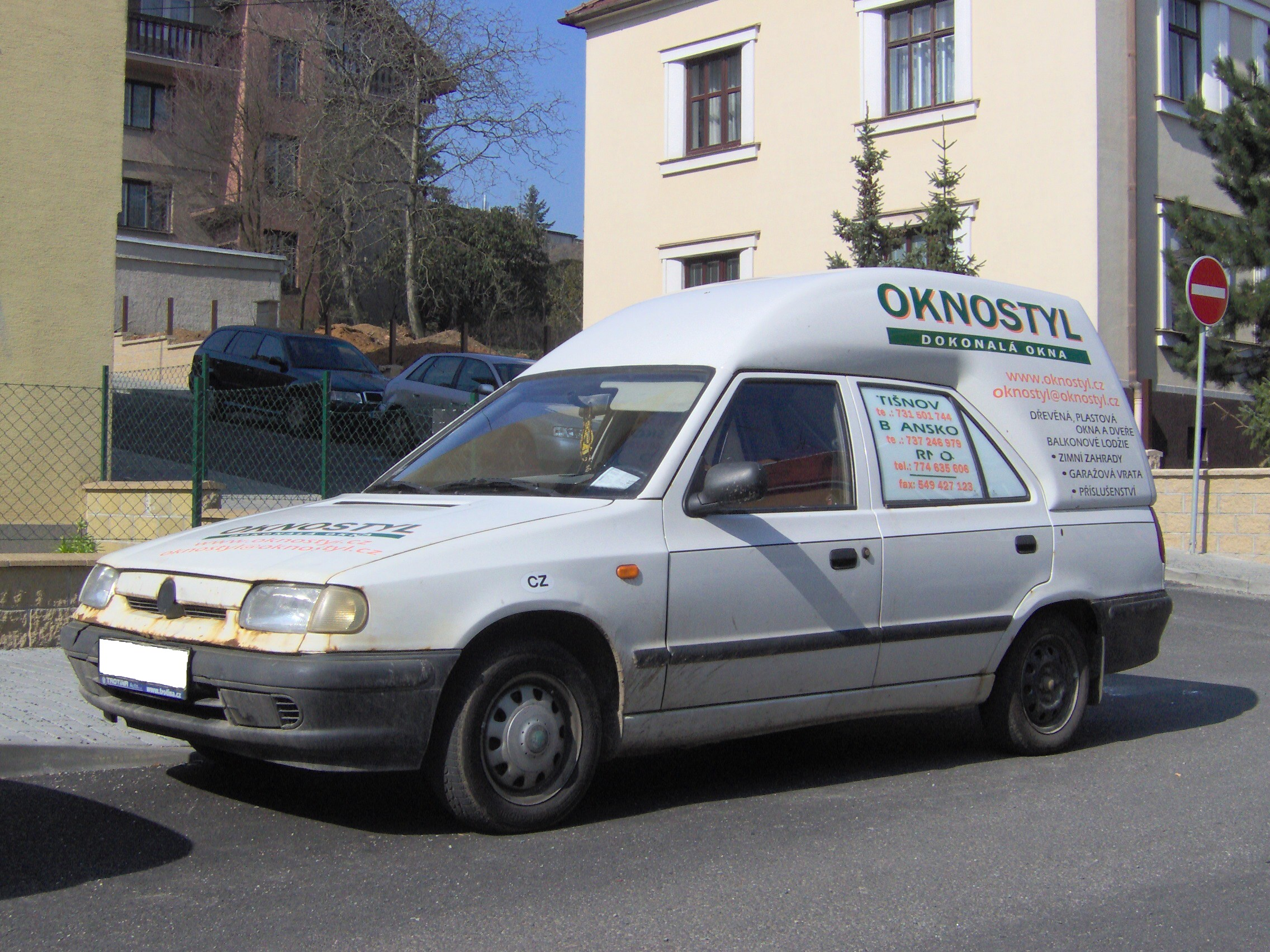 Škoda Felicia Vanplus, Brno, Czech Republic